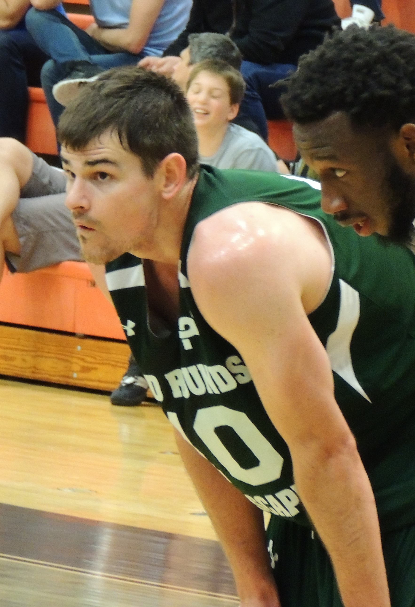 American basketball player Fletcher Magee of Wofford College at the 2019 Portsmouth Invitational Tournament.